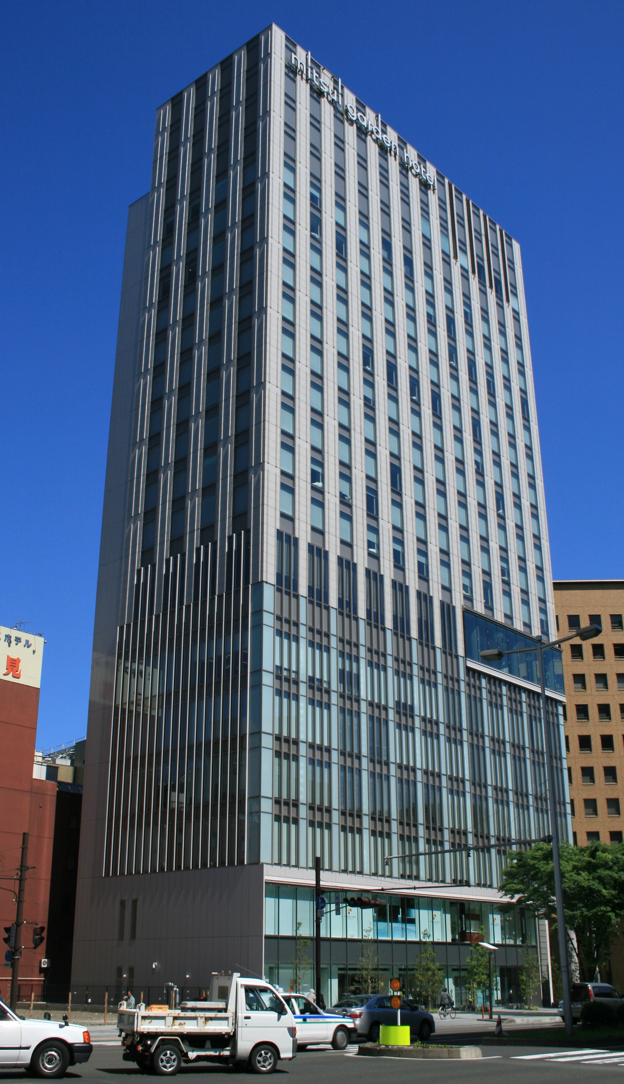 Sendai Honcho Mitsui Building (Sendai Honchō Mitsui Building) viewed from west-northwest. It is in 2-chome (2-chōme), Honcho (Honchō), Aoba Ward (Aoba-ku), Sendai City (Sendai-shi), Miyagi Prefecture (Miyagi-ken), Japan.